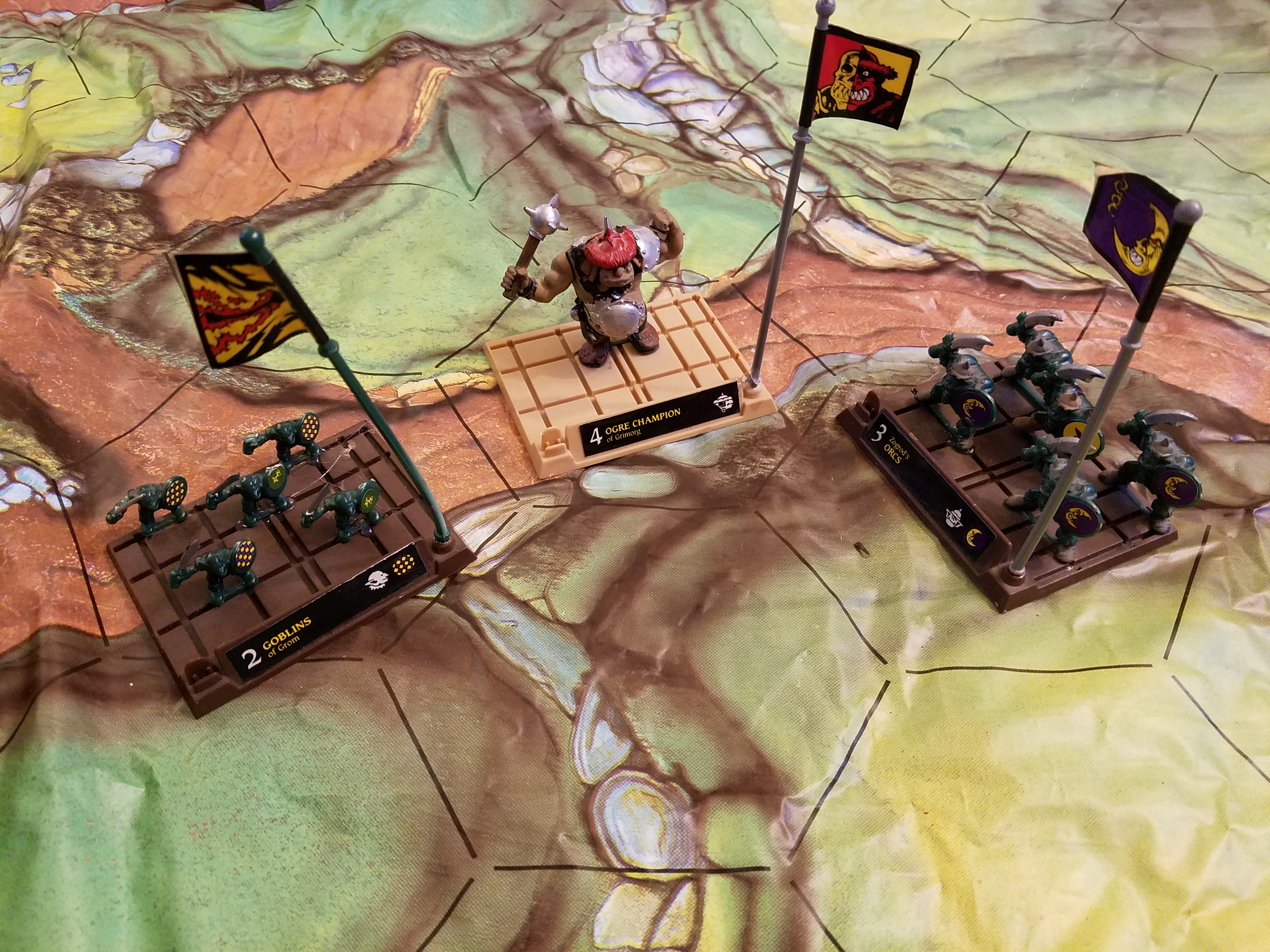 Chaos figures from Battlemasters Boardgame